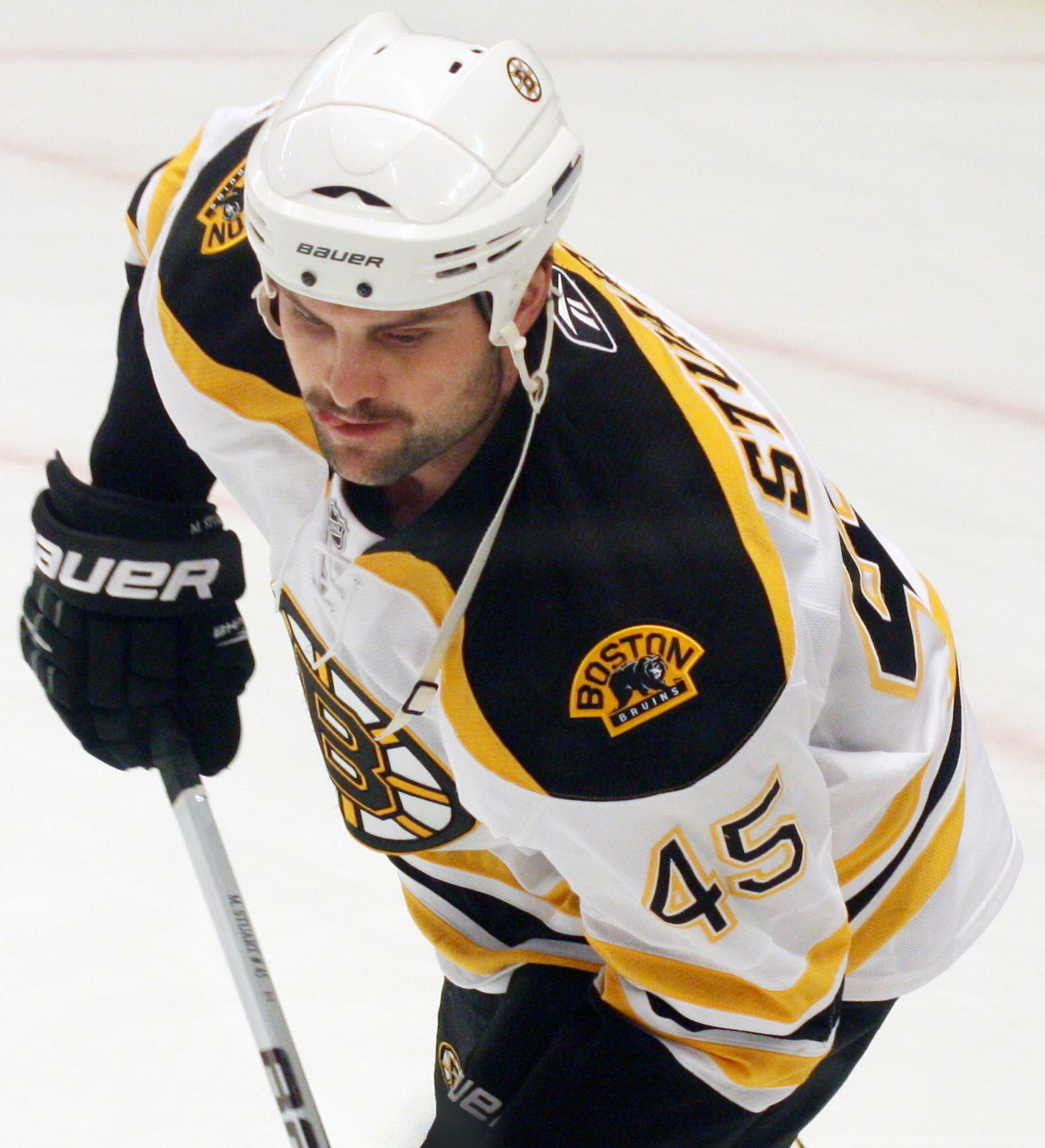 Mark Stuart in November 2010.